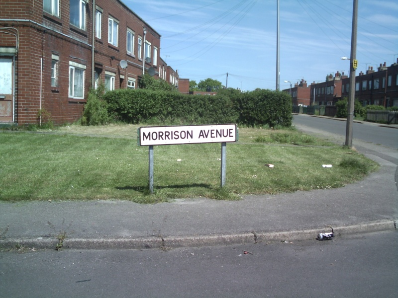 Morrison/Churchill Avenue, Maltby.